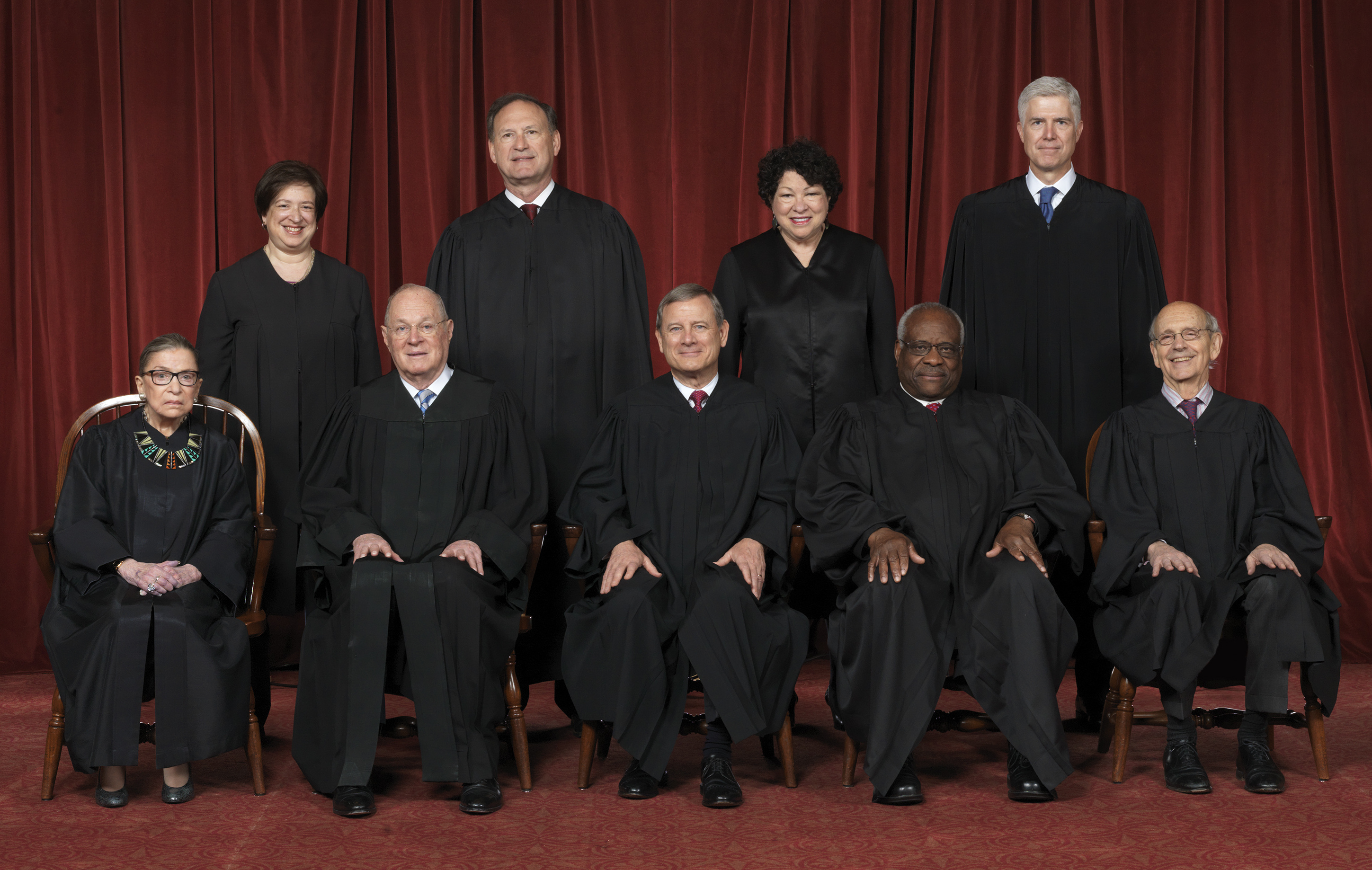 The nine justices of the Supreme Court of the United States following the addition of Neil Gorsuch in April 2017, who replaced Antonin Scalia (died in office, February 2016). Seated (front), from left to right: Justices Ruth Bader Ginsburg and Anthony M. Kennedy, Chief Justice John G. Roberts, Jr., and Justices Clarence Thomas and Stephen G. Breyer. Standing (rear), from left to right: Justices Elena Kagan, Samuel A. Alito, Sonia Sotomayor, and Neil M. Gorsuch.